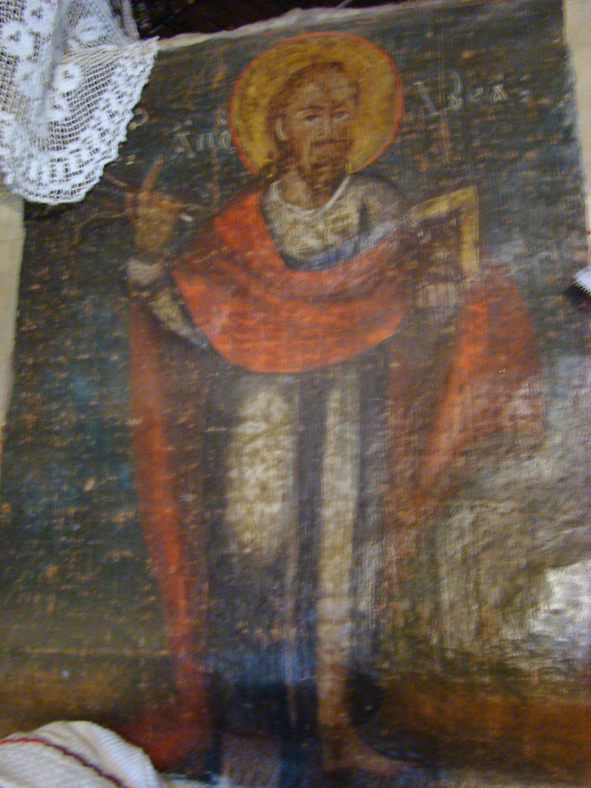 The old wooden church in Bruznic, Arad county, Romania